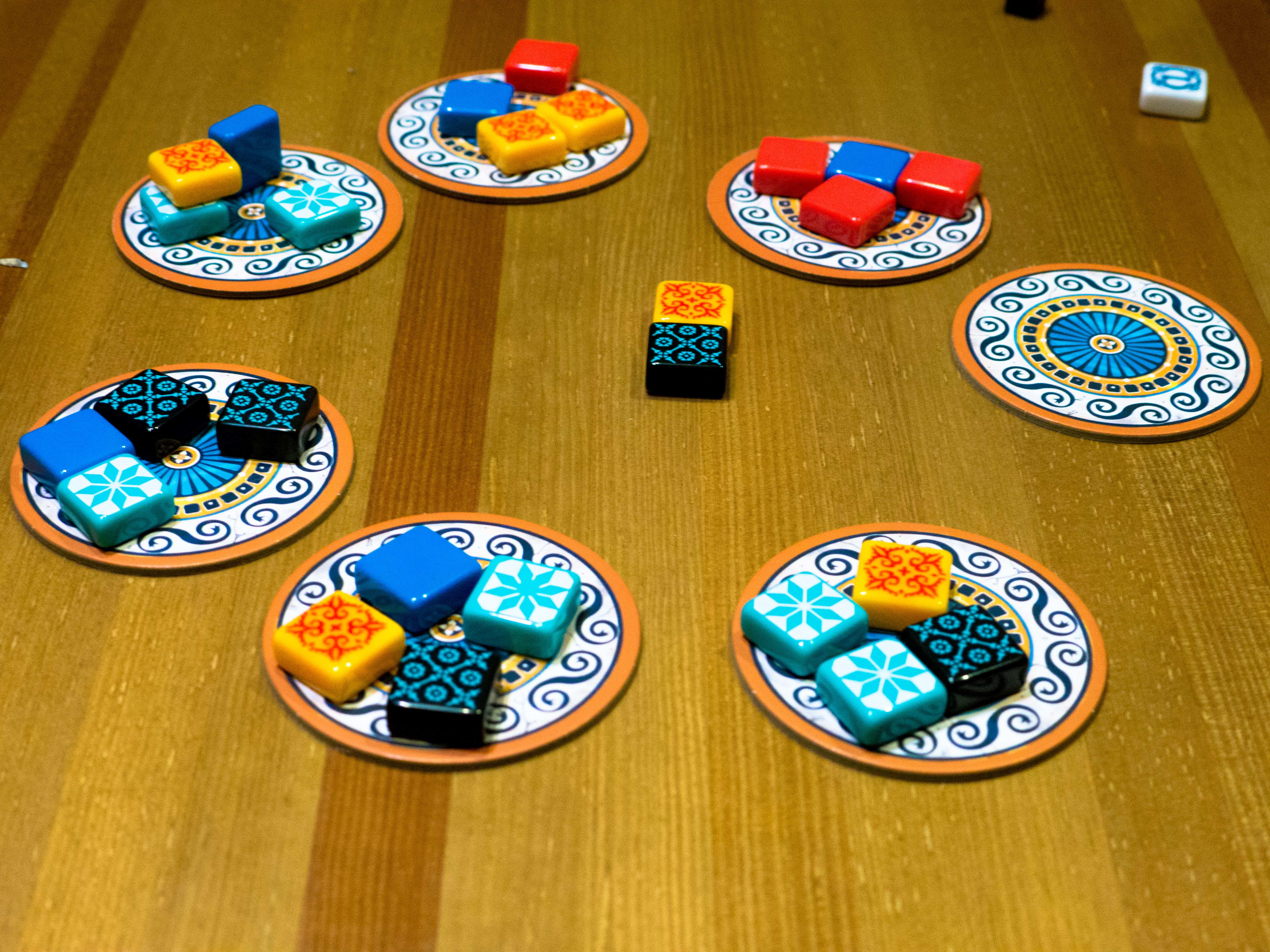 Gameplay of Spiel des Jahres winner "Azul".